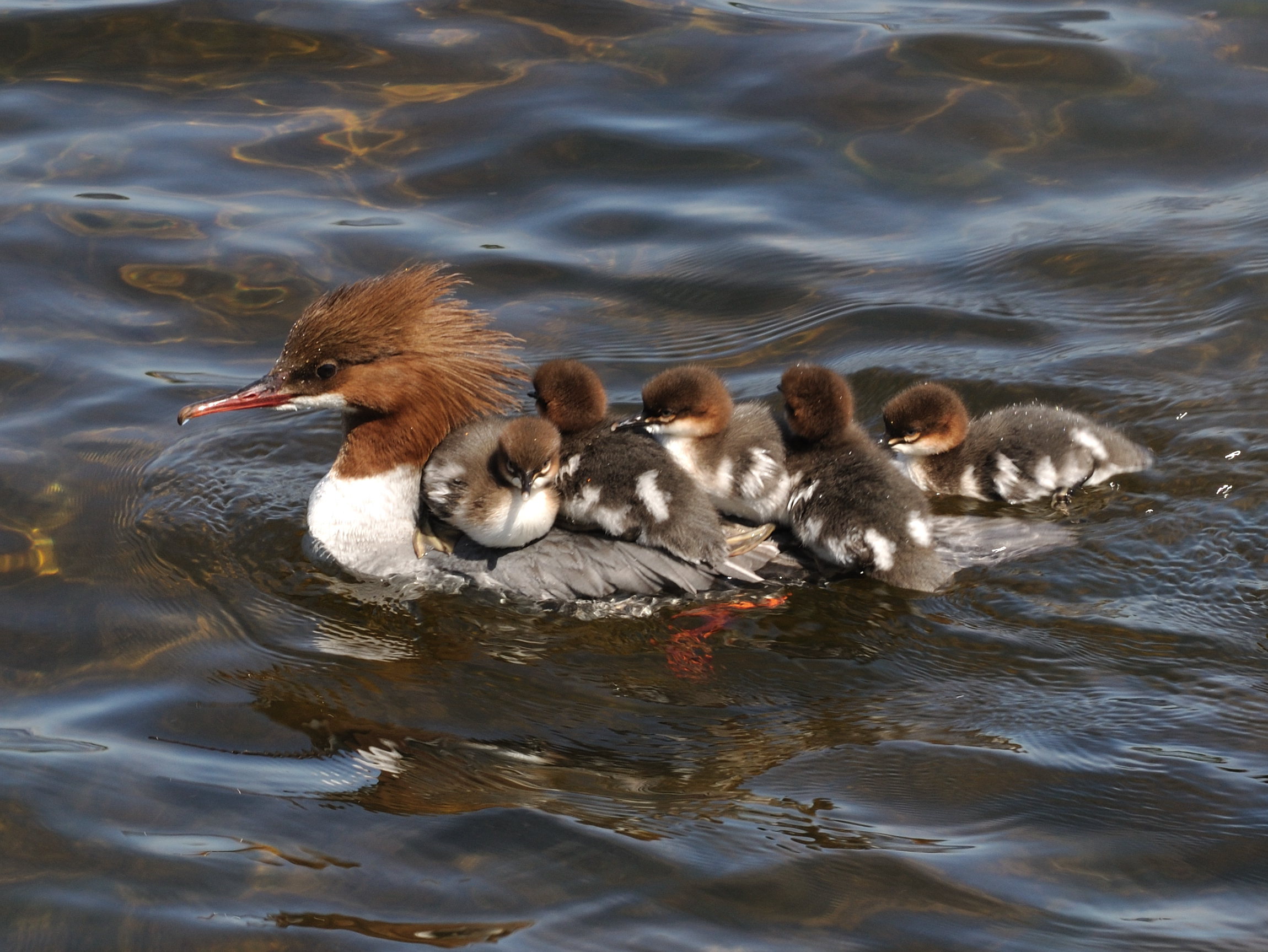 Female Goosander (Mergus merganser) carrying five ducklings on her back in Munich, Germany.